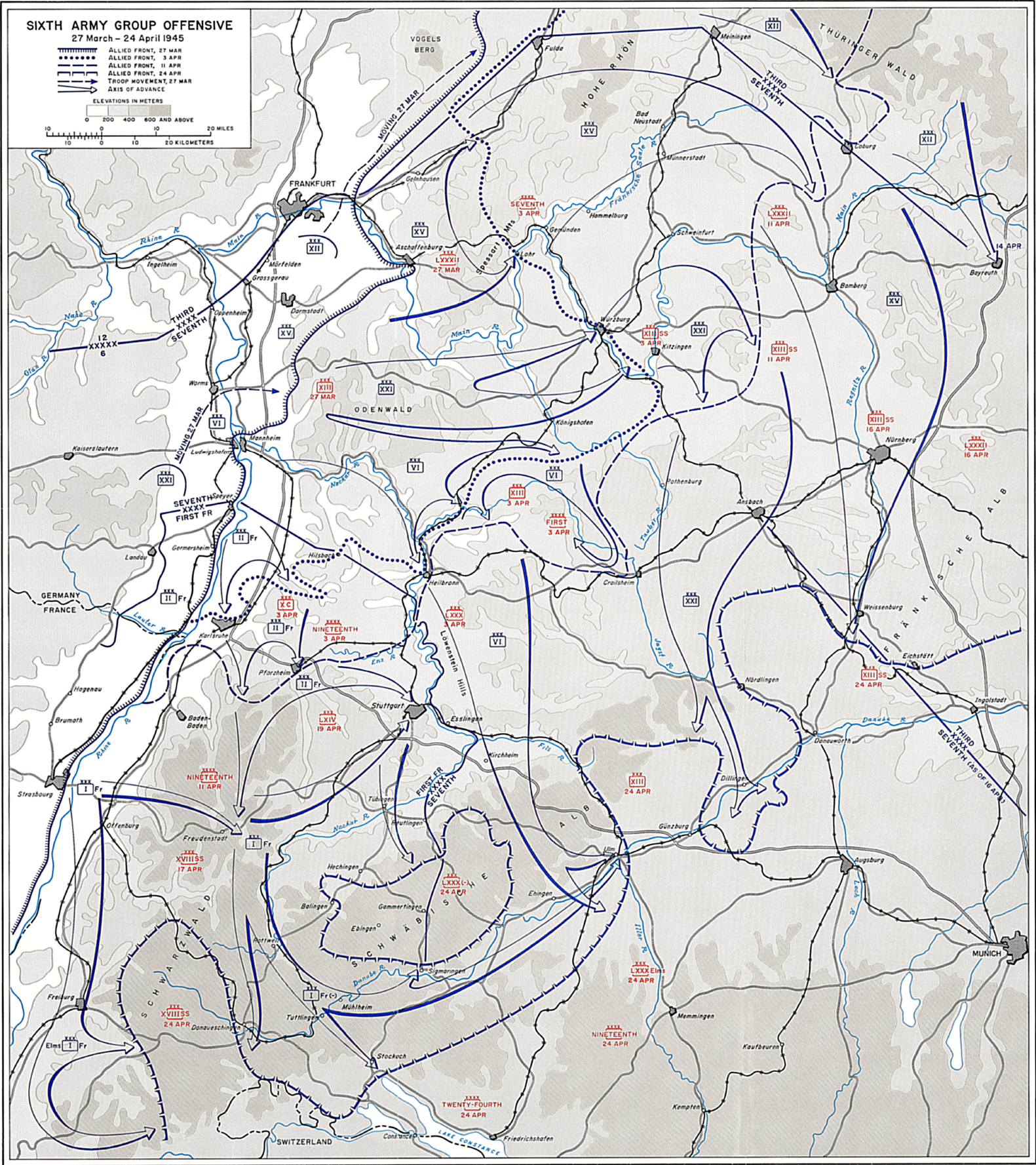 Allied Sixth Army Group Offensive, March–April 1945